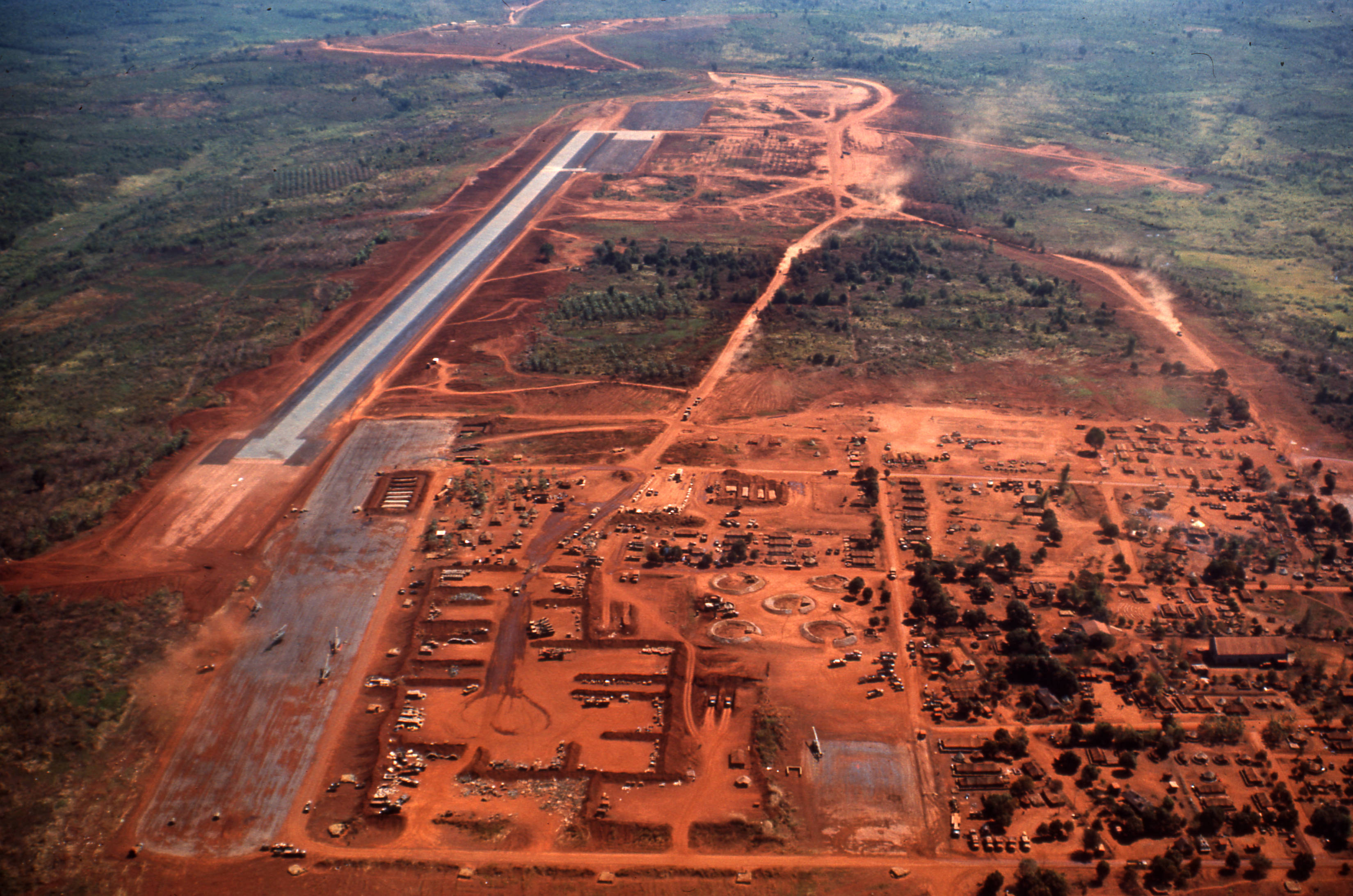 Plei Djereng airfield (YA860456) located west of Pleiku. The runway is made of MX19 matting and was constructed by D Company, 35th Engineer Battalion. Work began in mid-December and the field was operational on 17 January. Peneprime is being applied to the shoulders and the overruns of the airfield and matting is yet to be placed on the aircraft parking area on the far end of the runway